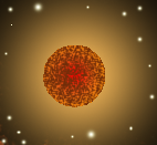 This is an artistic representation of Teide 1